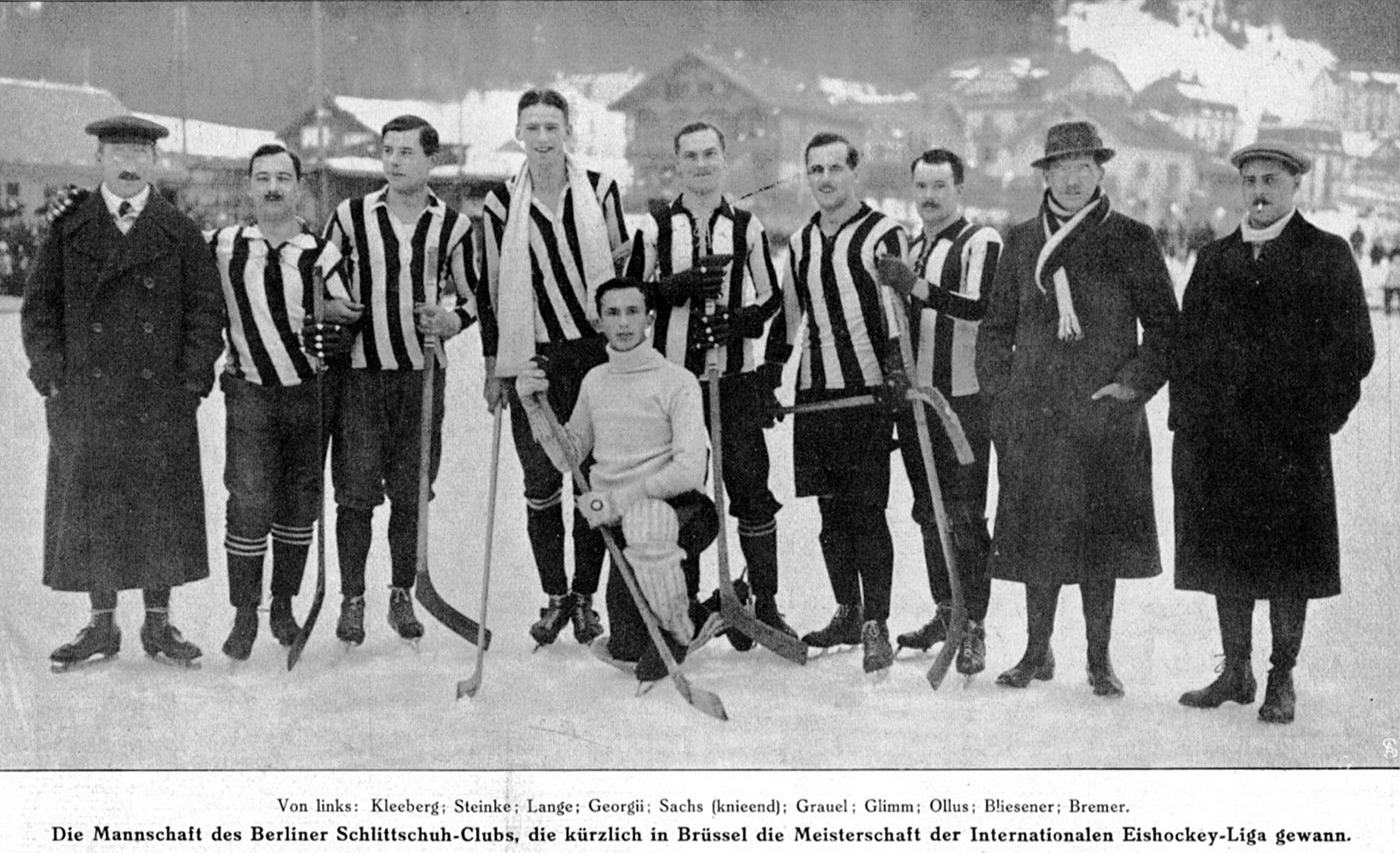 Hockey team of Berliner Schlittschuhclub, 1912